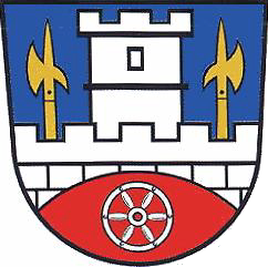 Coat of Arms of Marth